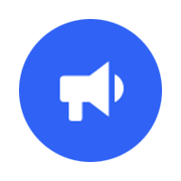 The logo of the Chrome extension, Google Tone. I plan on making a Google tone wikipedia page.